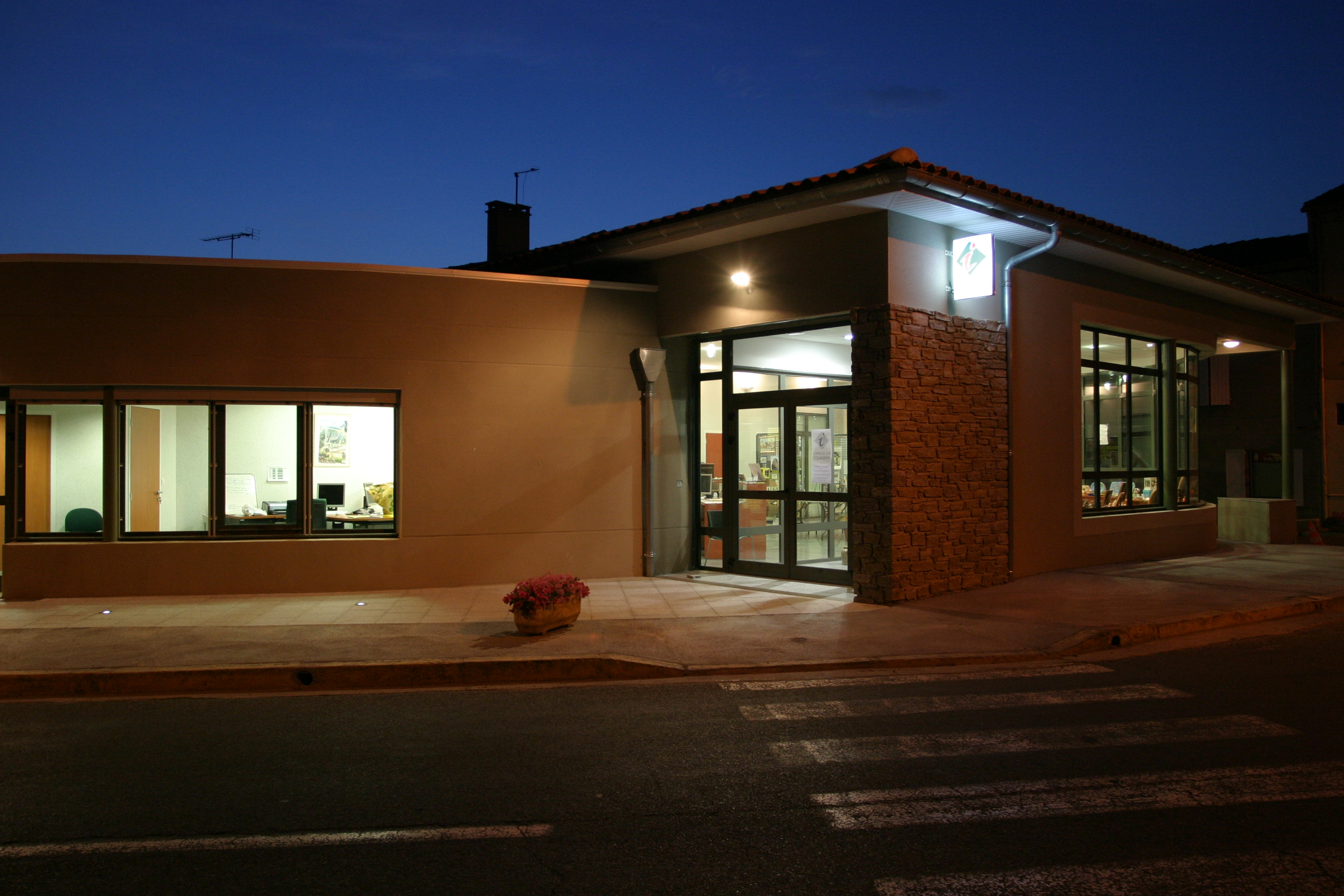 Sunset view